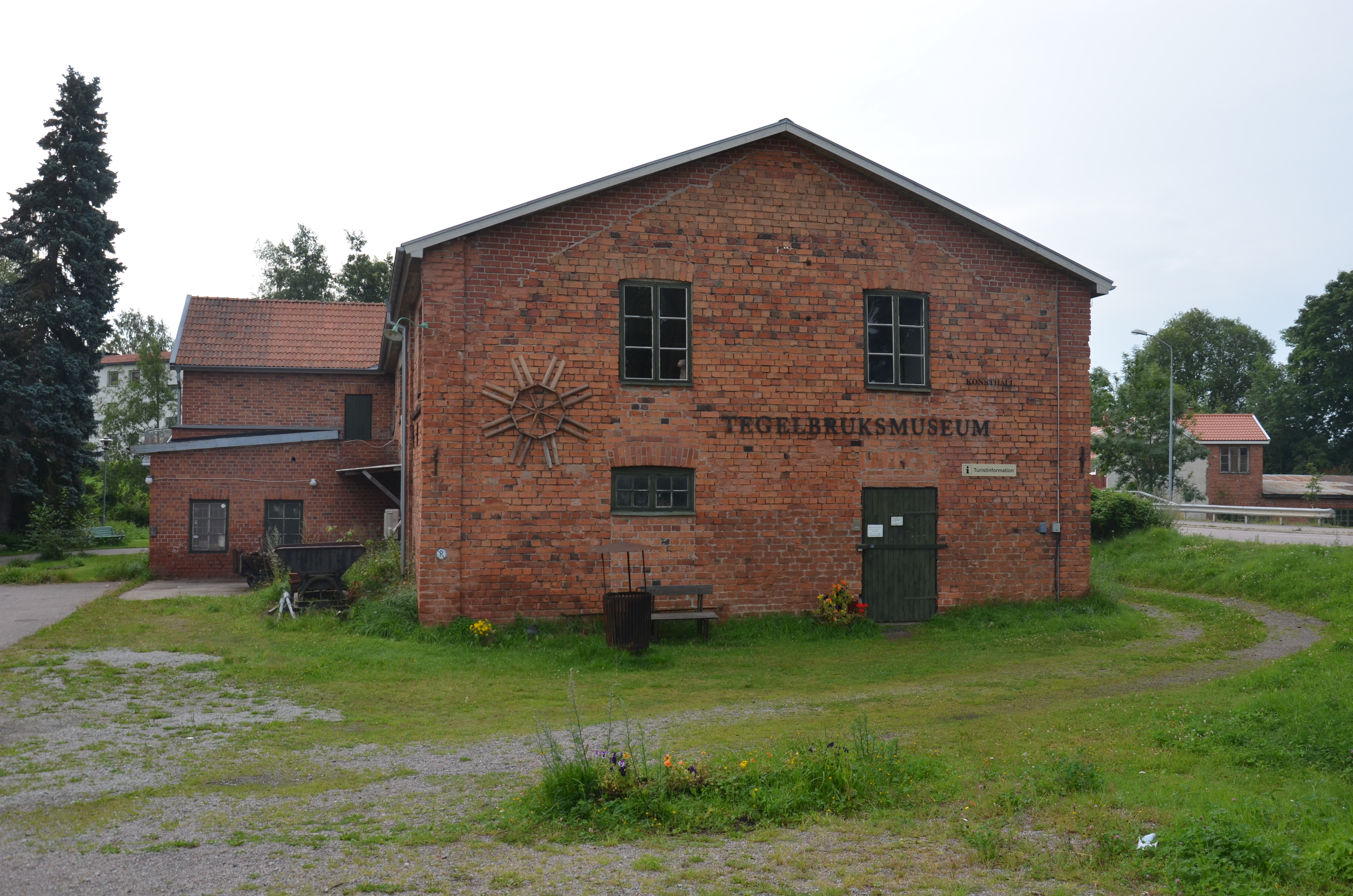 Heby tegelbruksmuseum